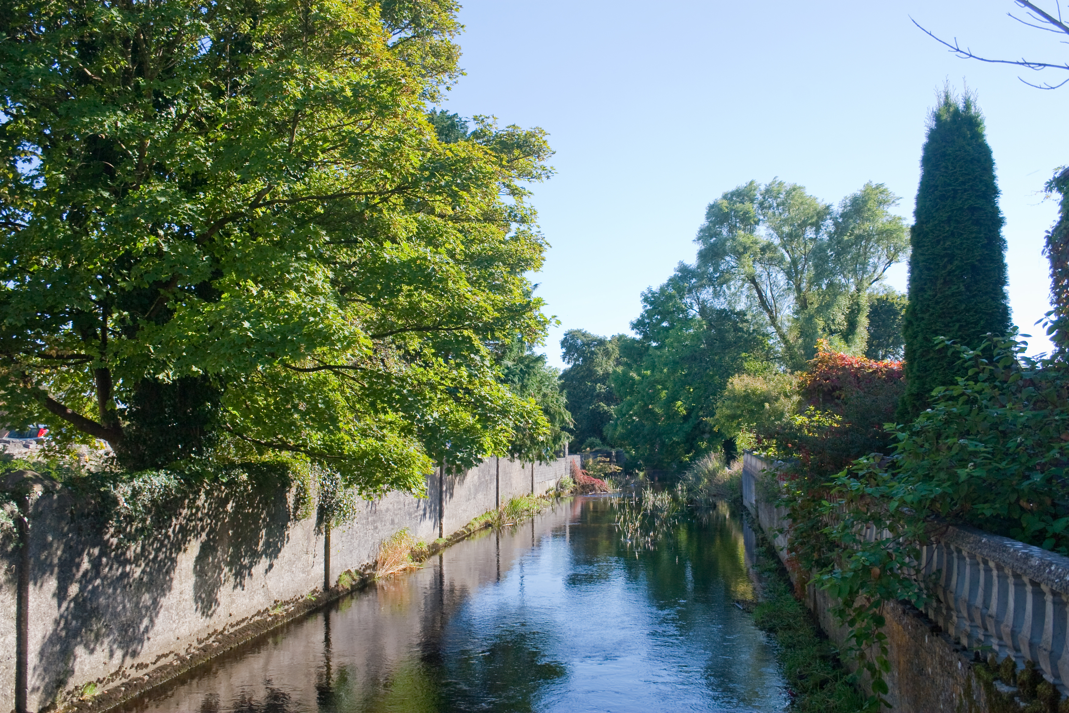 Athenry, County Galway, Ireland River Clareen (also called Clarin) as seen from the bridge leading from the Abbey Road to Barrack Street, looking west, downstream.